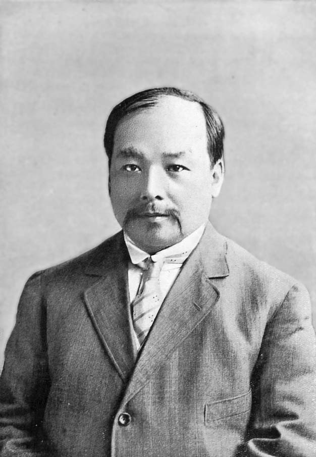 Liang Shih-yi, who was the Power behind Yuan Shih-kai, now proscribed and living in exile at Hong-Kong.